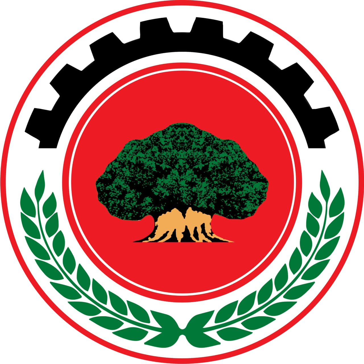 Emblem of the Oromia Region